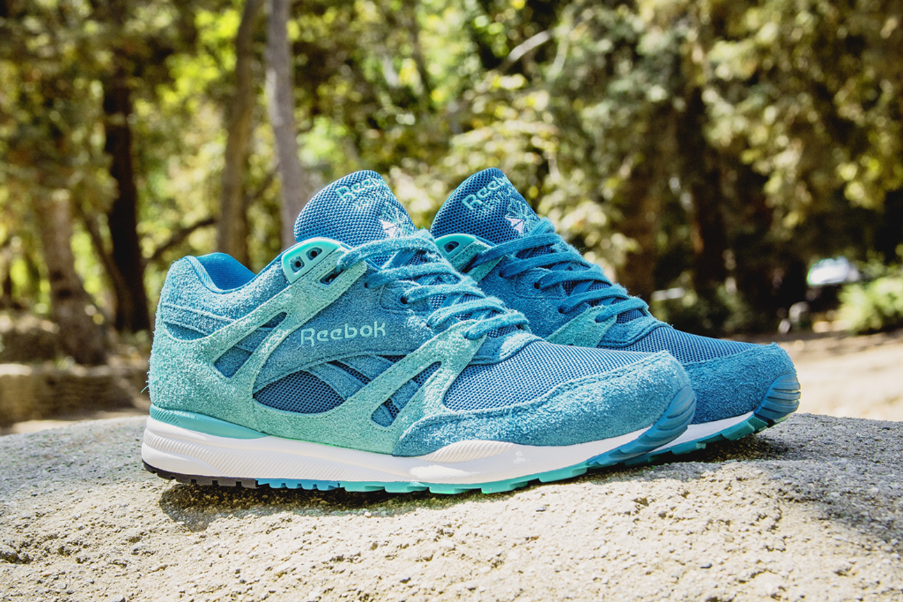 Ventilator Ballistic Pack